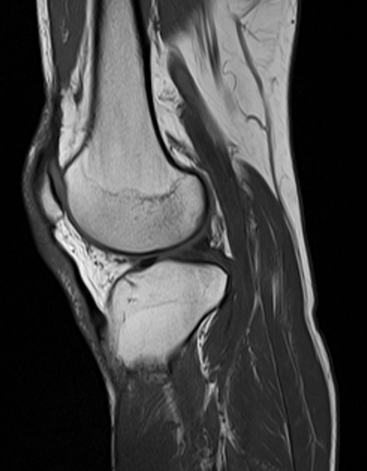 MRI of the right knee, abnormal. Acquired on a Siemens MAGNETOM Aera 1.5 Tesla scanner.